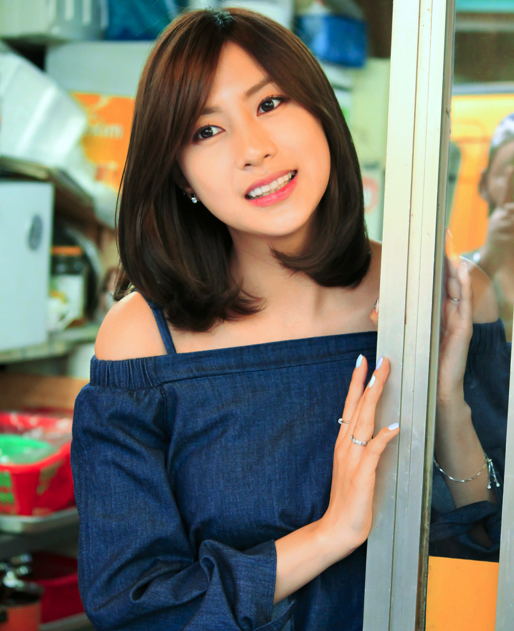 Oh Hayoung during shooting of Shikshin Road on April 4, 2016